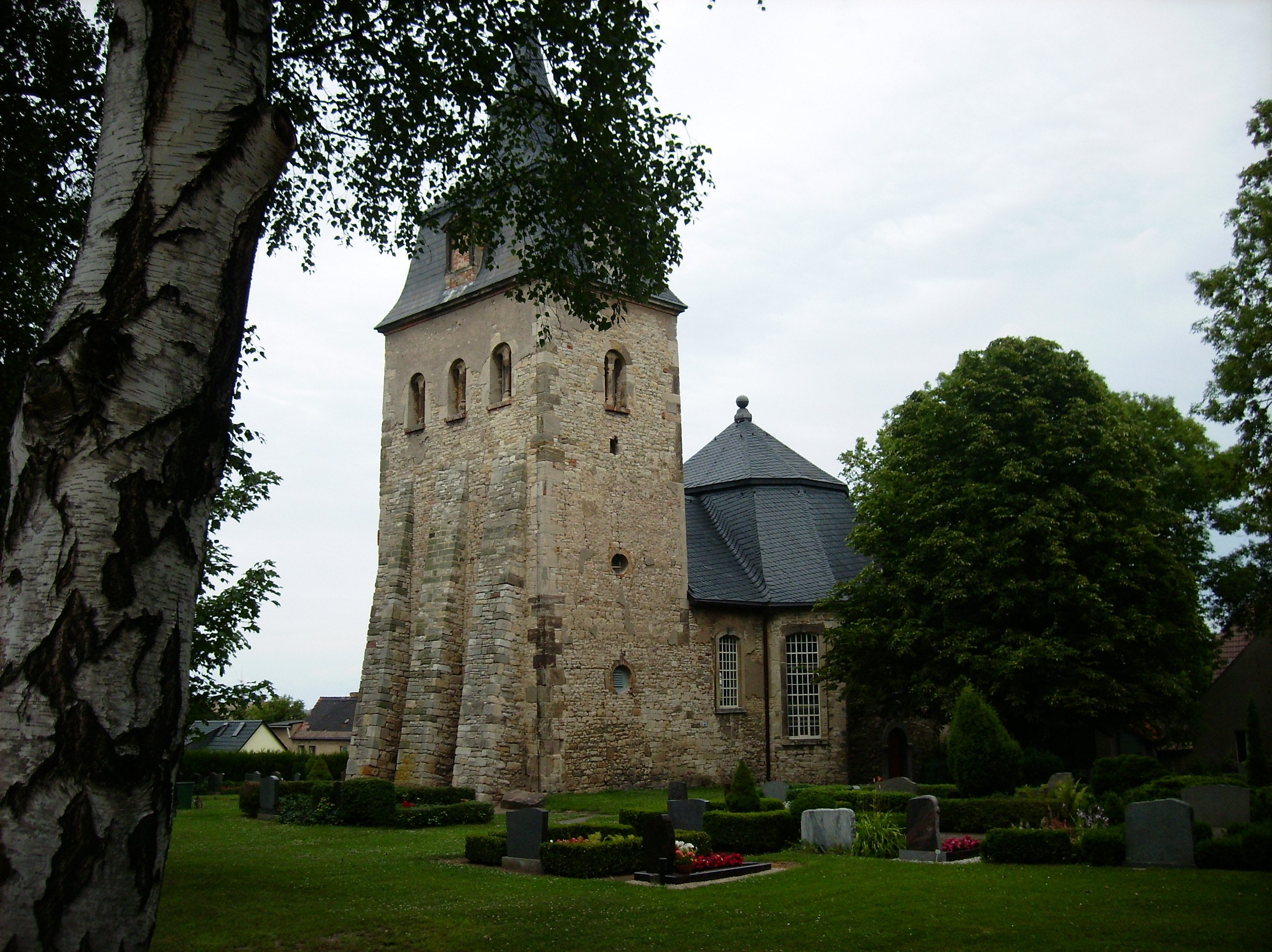 Church of the village of Krumpa (Braunsbedra, district of Saalekreis, Saxony-Anhalt)